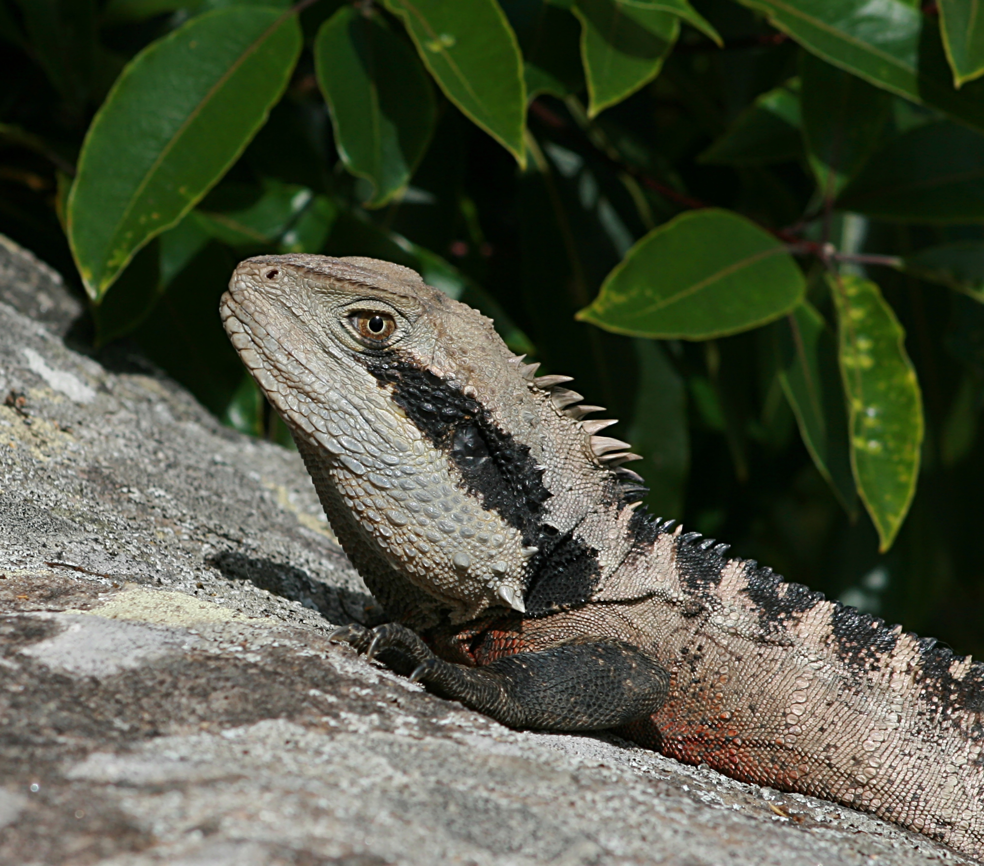 An Eastern Water Dragon (Intellagama lesueurii lesueurii), the nominate race of the Australian Water Dragon (Physignathus lesueurii), on the Clontarf Track, near the Grotto Point Reserve, in Sydney, New South Wales, Australia.